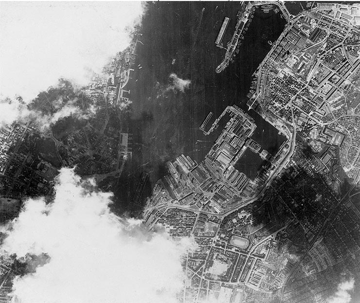 Aerial reconnaissance photograph, probably taken by the British Royal Air Force circa February-June 1942. The arrow in upper right center marks the position of the battleship Scharnhorst, which was then under repair at the Kiel navy yard for damage received during the February 1942 "Channel Dash".